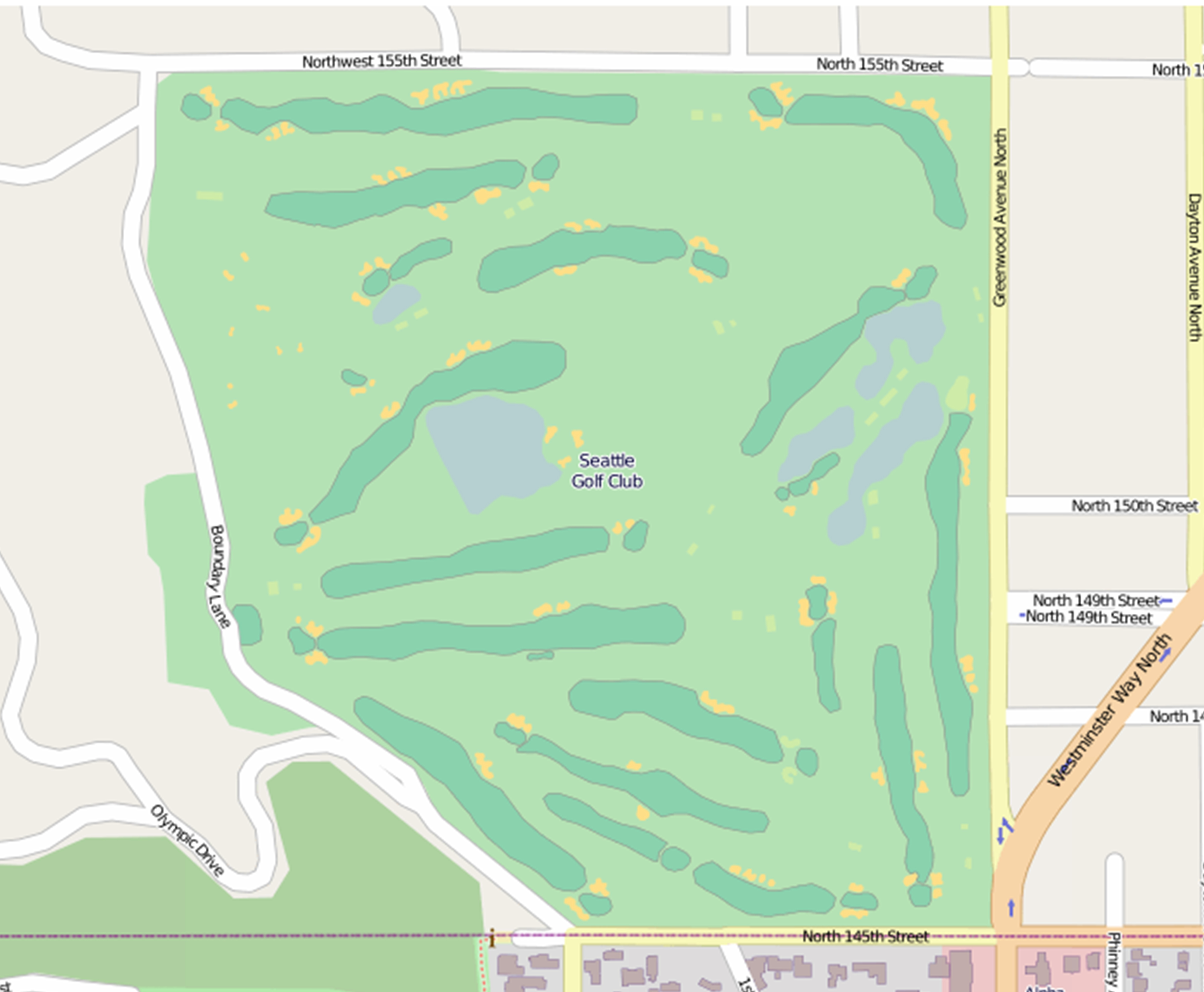 Map of the Seattle Golf Club This map of Seattle Golf Club, Shoreline was created from OpenStreetMap project data, collected by the community. This map may be incomplete, and may contain errors. Don't rely solely on it for navigation.